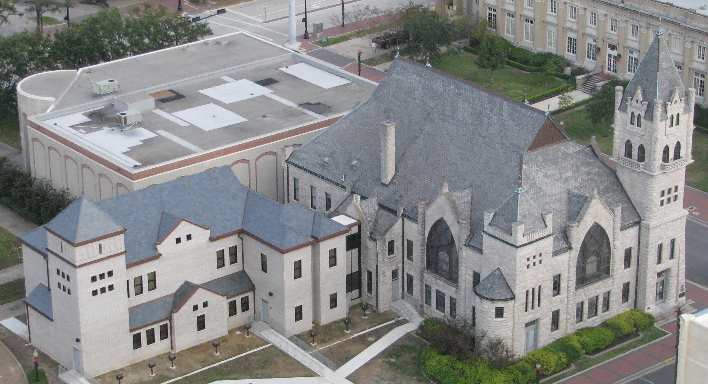 Tyrrell Historical Library. In 2010 an addition was completed. This building is to the left.